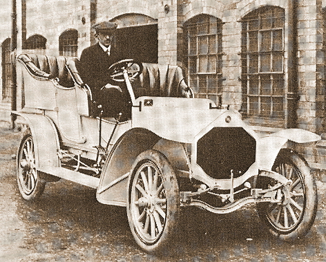 1907 Enfield 15 hp